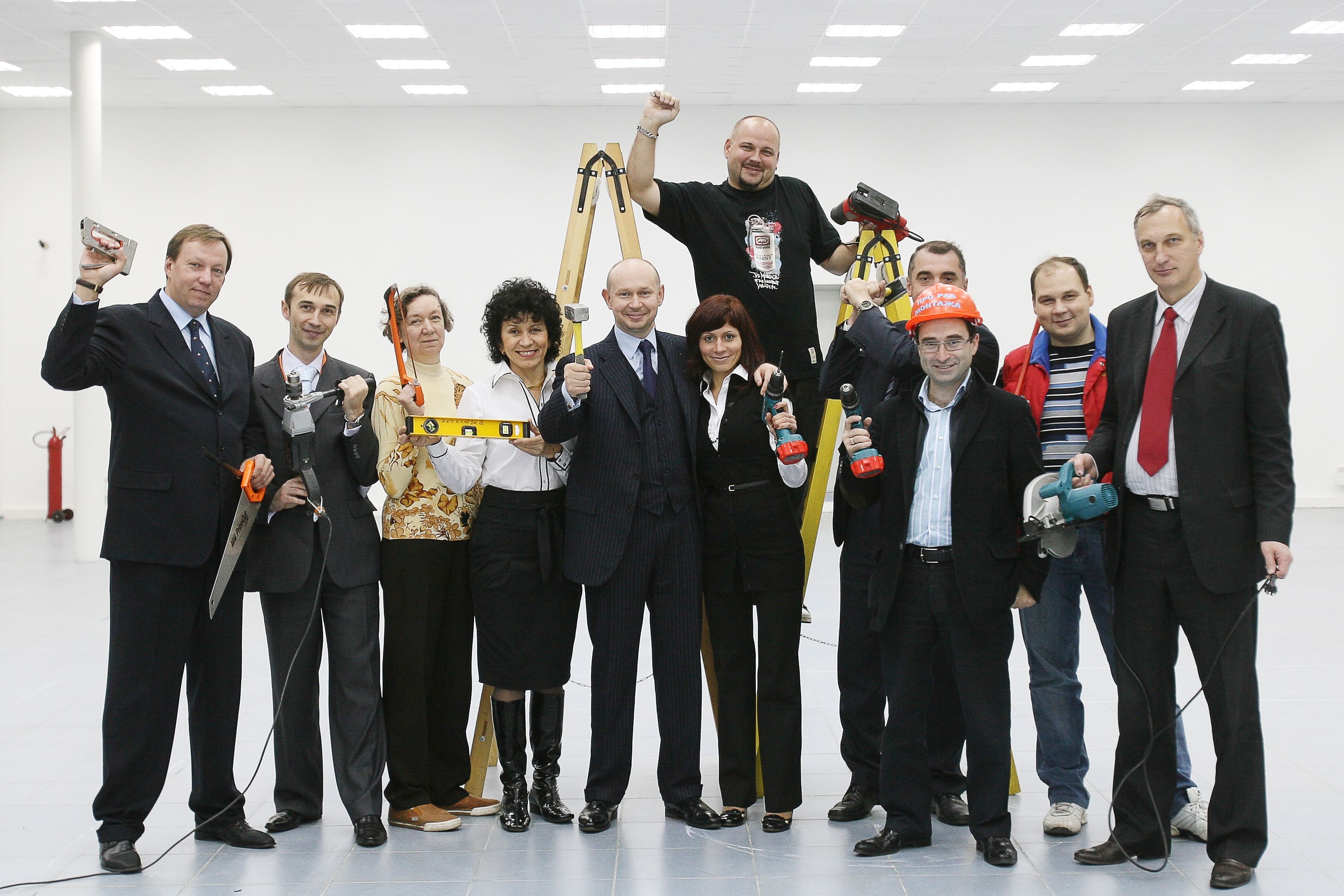 the photo was created, when the making of the Contemporary museum of calligraphy started